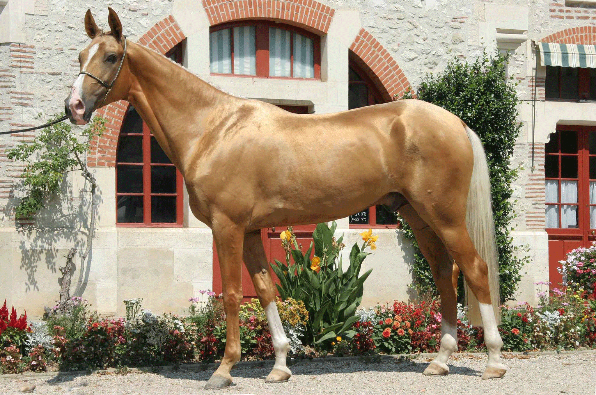 An Akhal-Teke with the famous golden sheen